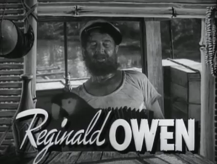 Reginald Owen in White Cargo, by Richard Thorpe (1942)